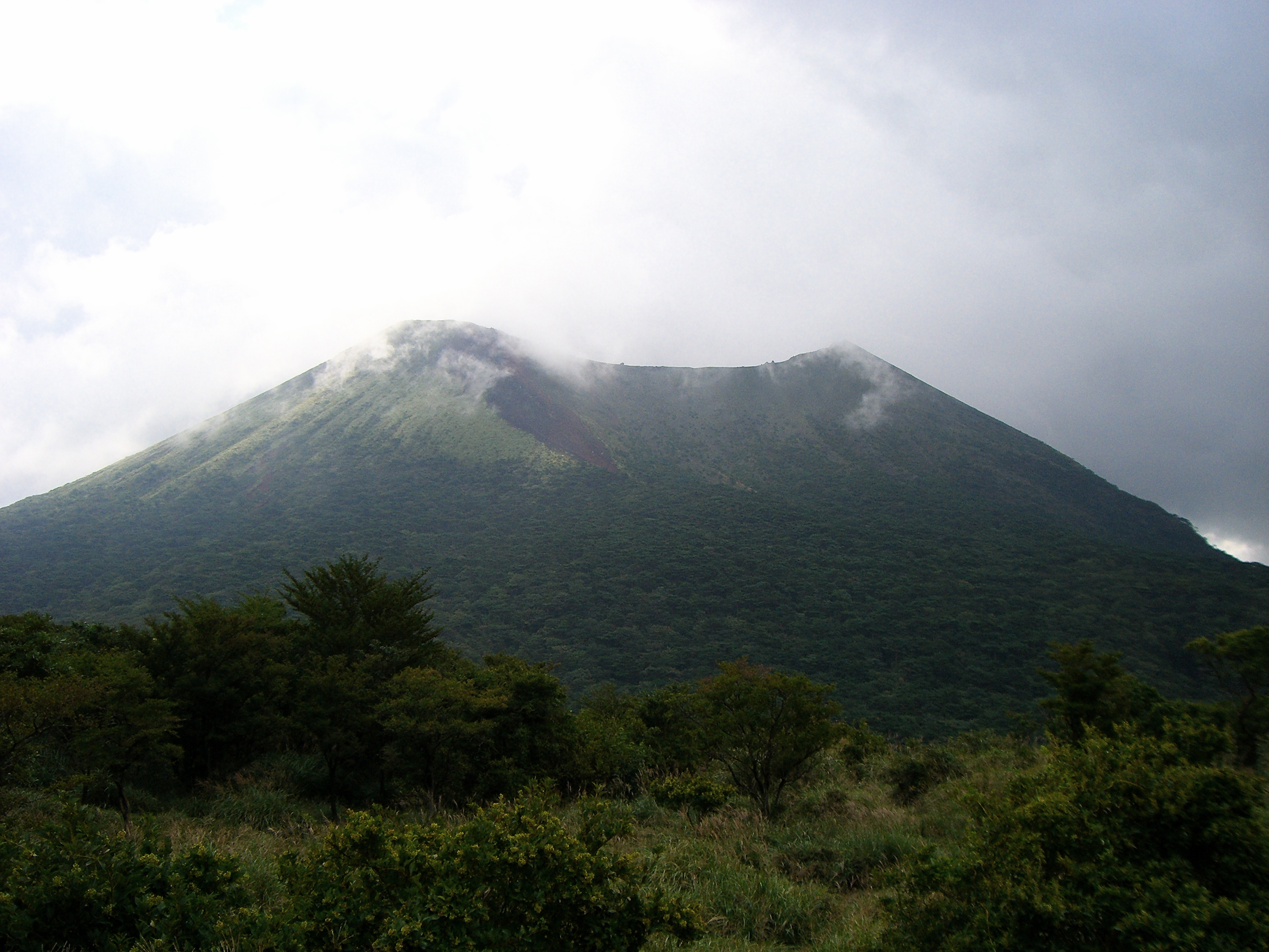 Mt. Ohachi rises between Kagoshima and Miyazaki, Japan.